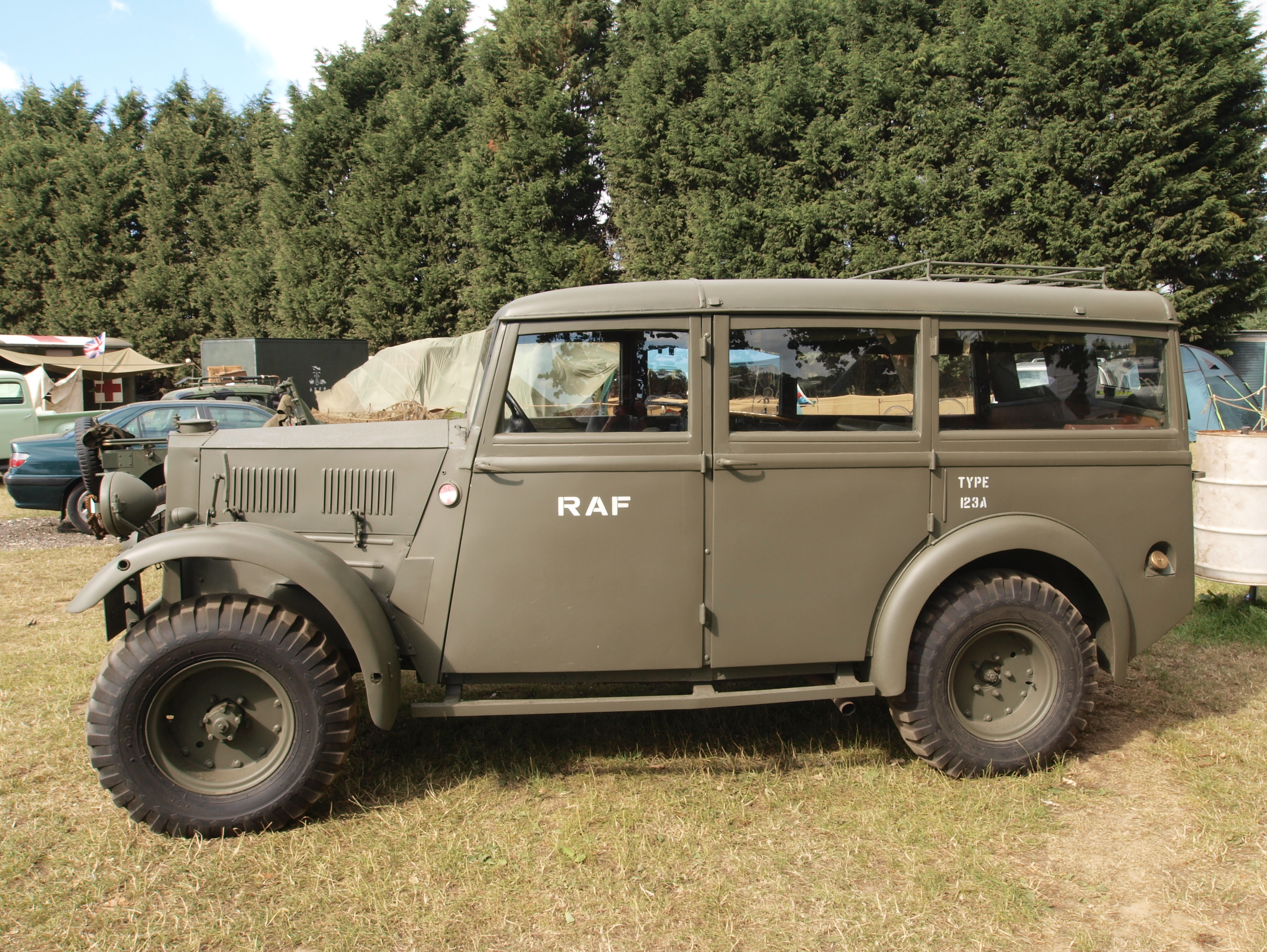 Humber Heavy Utility (1942) (owner Andrew Partridge)